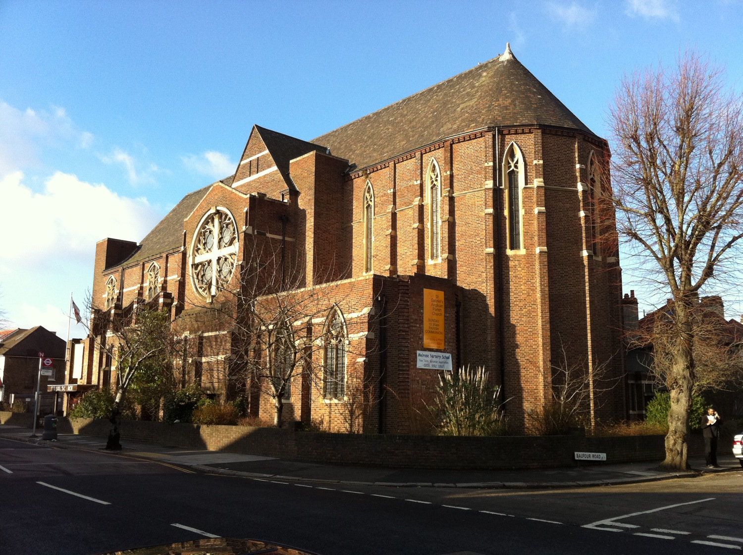 St Gabriel's parish church, Noel Road, North Acton, London W3, seen from the southeast